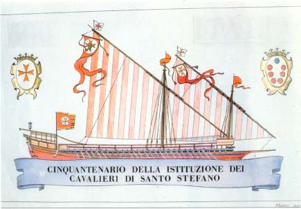 Galey or galjas of the Order of Saint Stephan. Tuscany - Drawing made in the 17th. or 18th. century